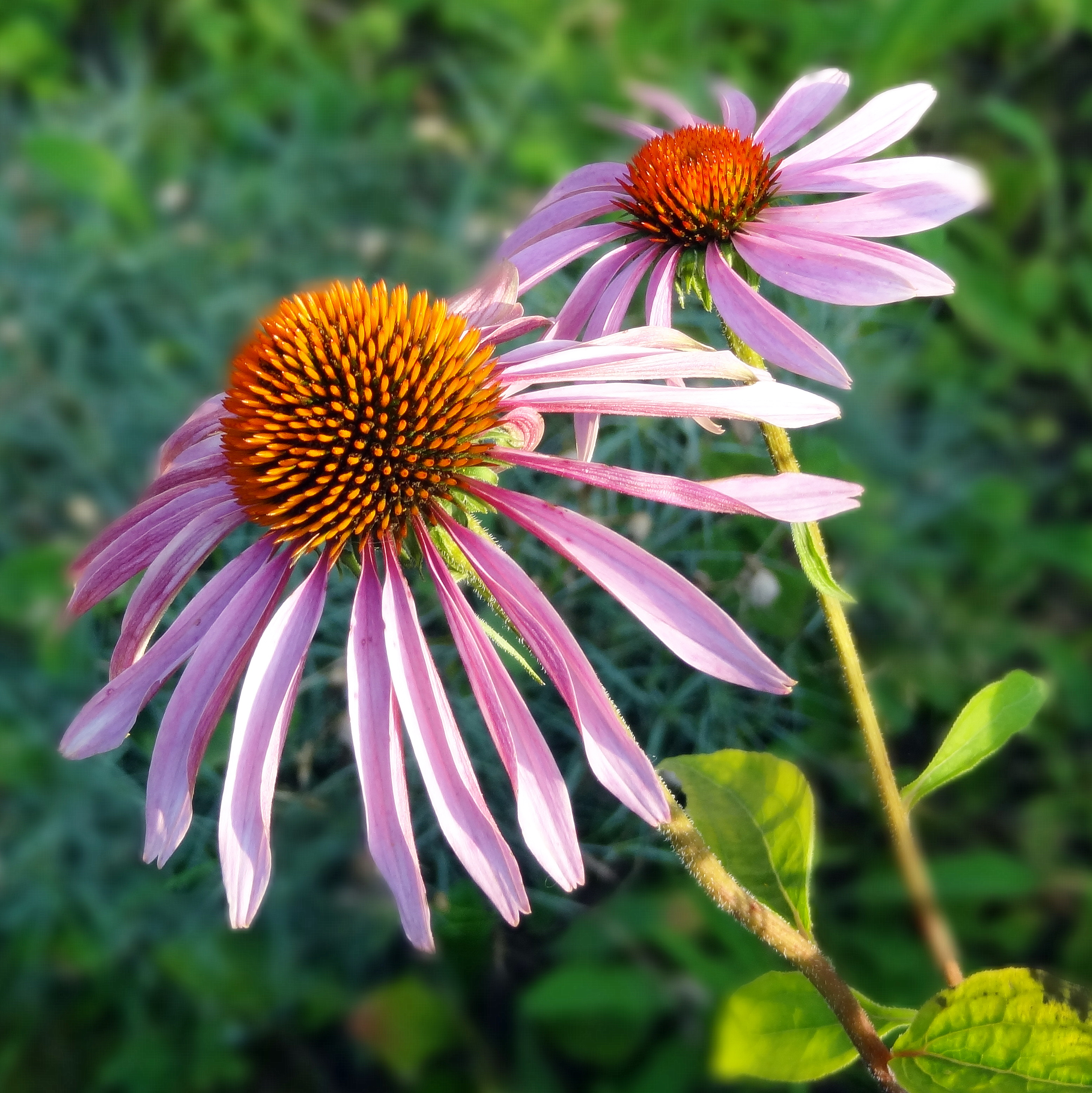 Echinacea purpurea